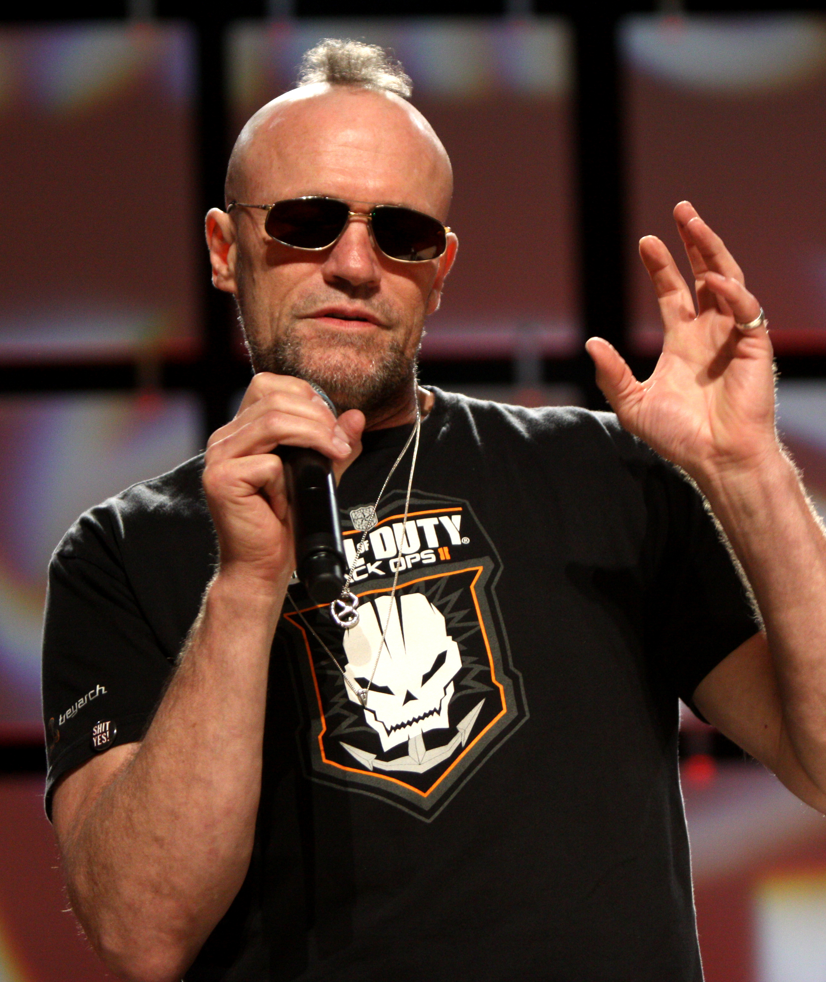 Michael Rooker at the 2013 Phoenix Comicon in Phoenix, Arizona.